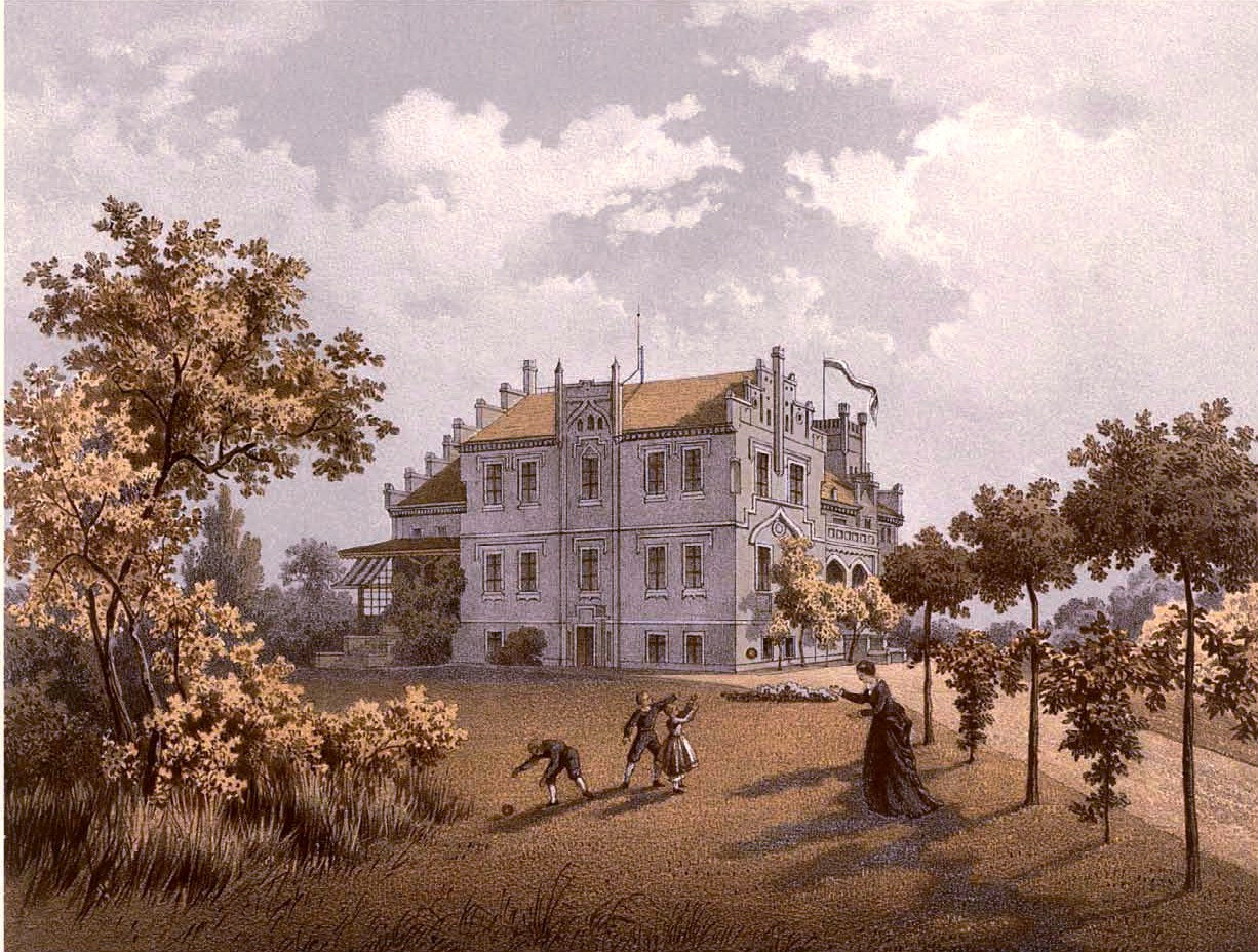 Former manor in Przetocznica, Poland